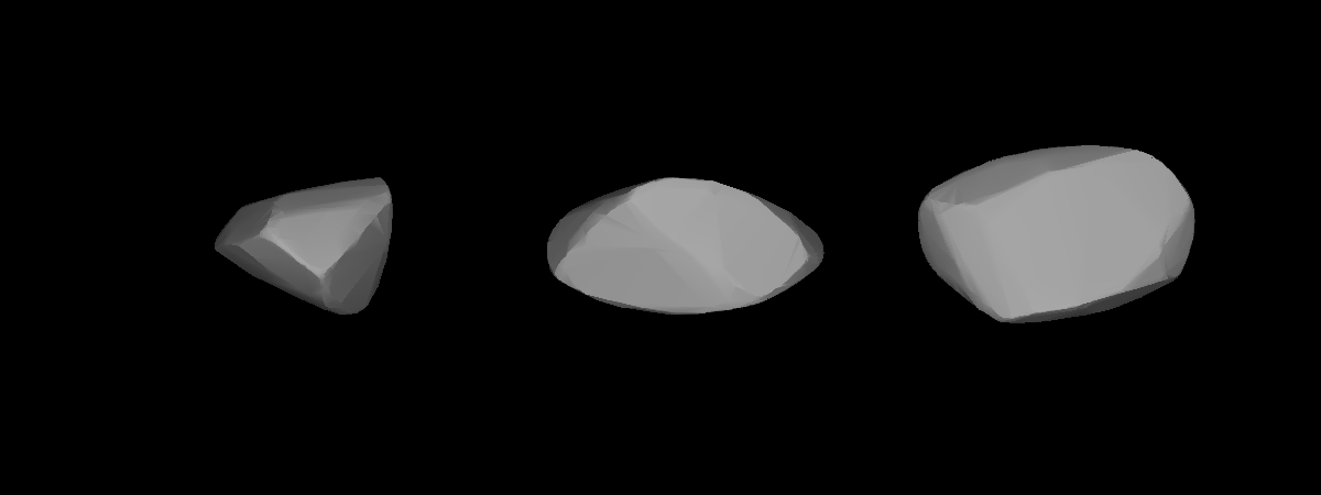 A three-dimensional model of 621 Werdandi that was computed using light curve inversion techniques.